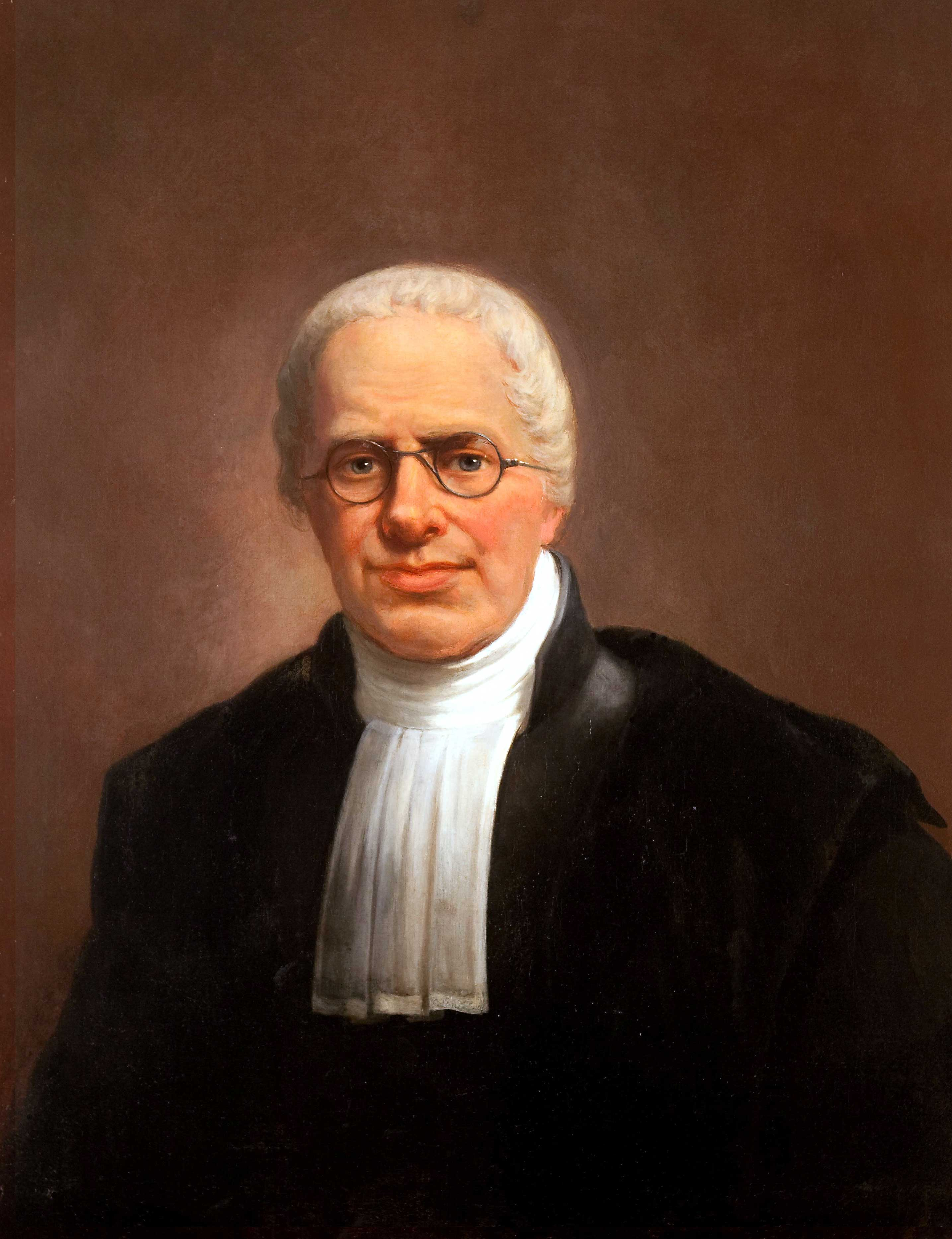 Jacobus Nieuwenhuis (1777-1857), professor philosophy at Leiden University